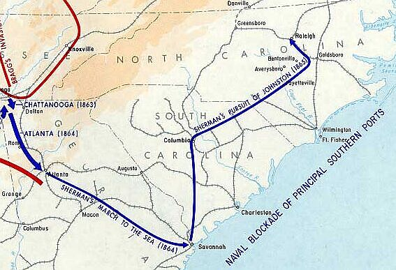 West Point Atlas